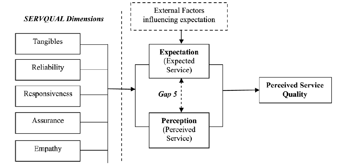 Measuring service quality using SERVQUAL model